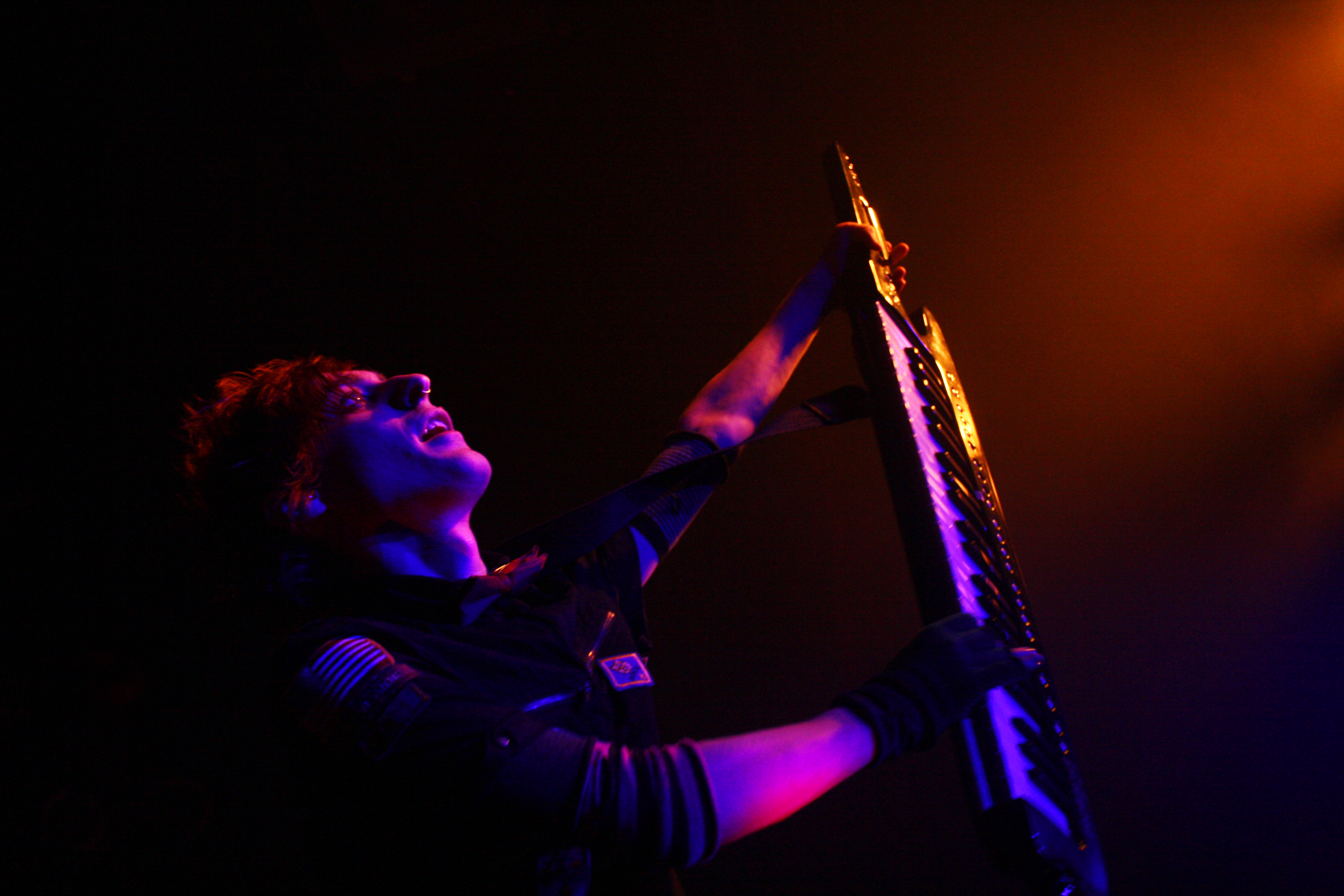 Owen from The Birthday Massacre, at the Mod Club in Toronto, Ontario, Canada; May 17, 2009.